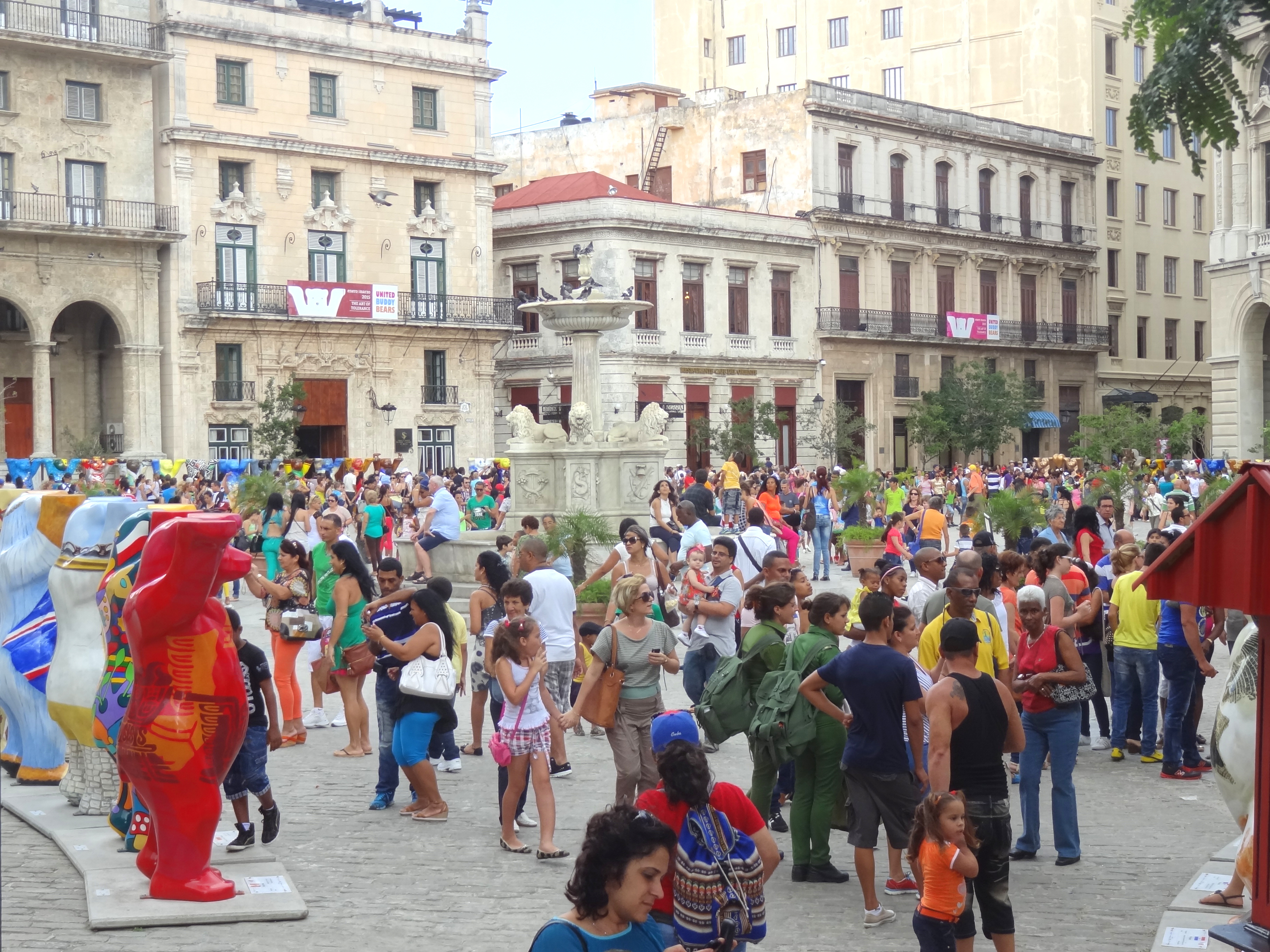 United Buddy Bears in Havana 2015